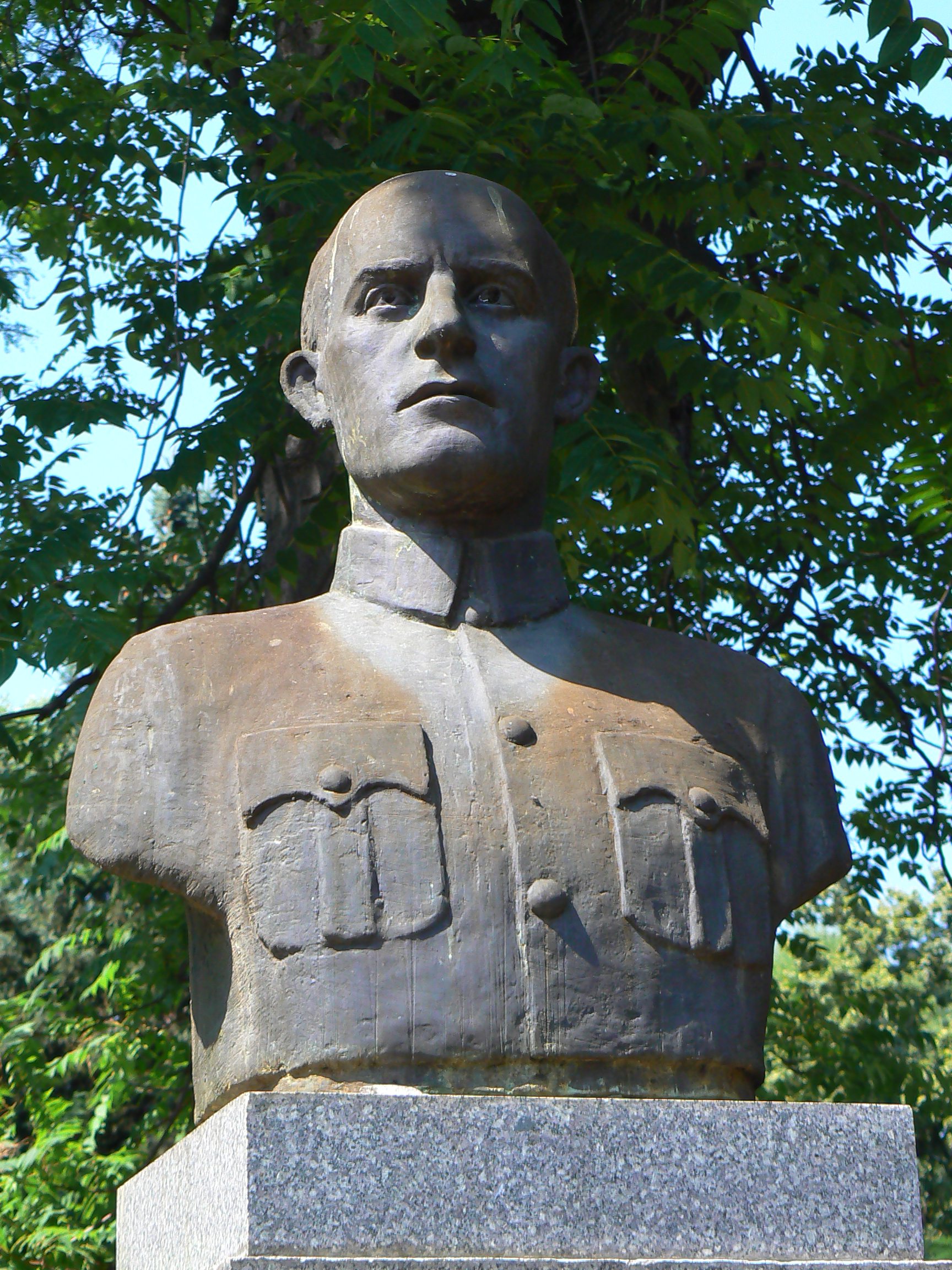 Monument of Ivan Mihailov in the Borisova garden of Sofia, Bulgaria